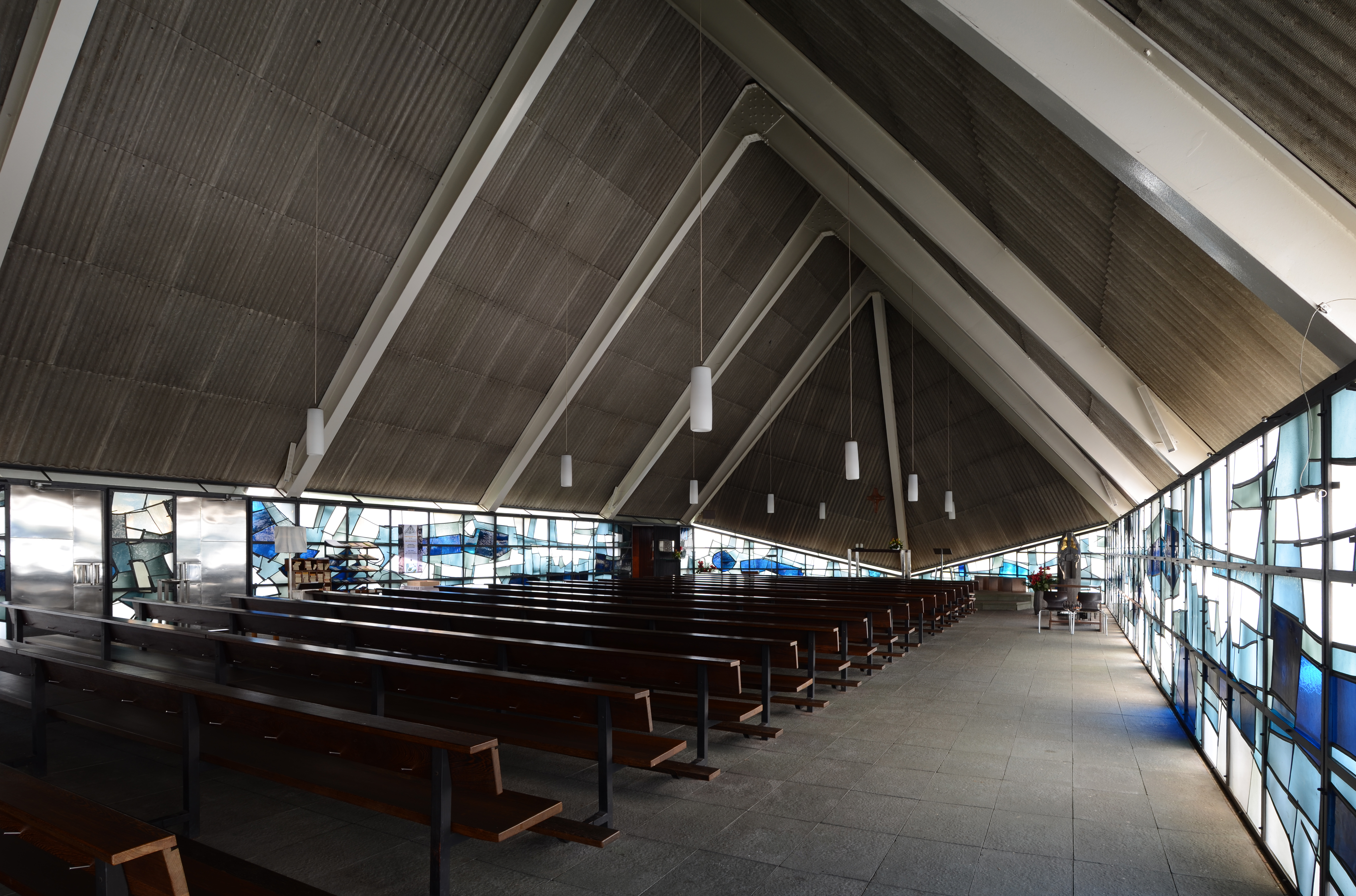 Krefeld (North Rhine-Westphalia, Germany) – district Kliedbruch – Catholic Saint Hubertus Church – interior This image shows a heritage building in Germany, located in the North Rhine-Westphalian city Krefeld (no. 825). This photograph was taken with a Nikon D7000.